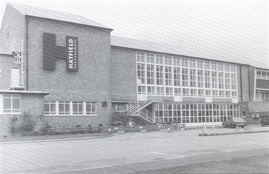 Carousel2diamondjubileeNB